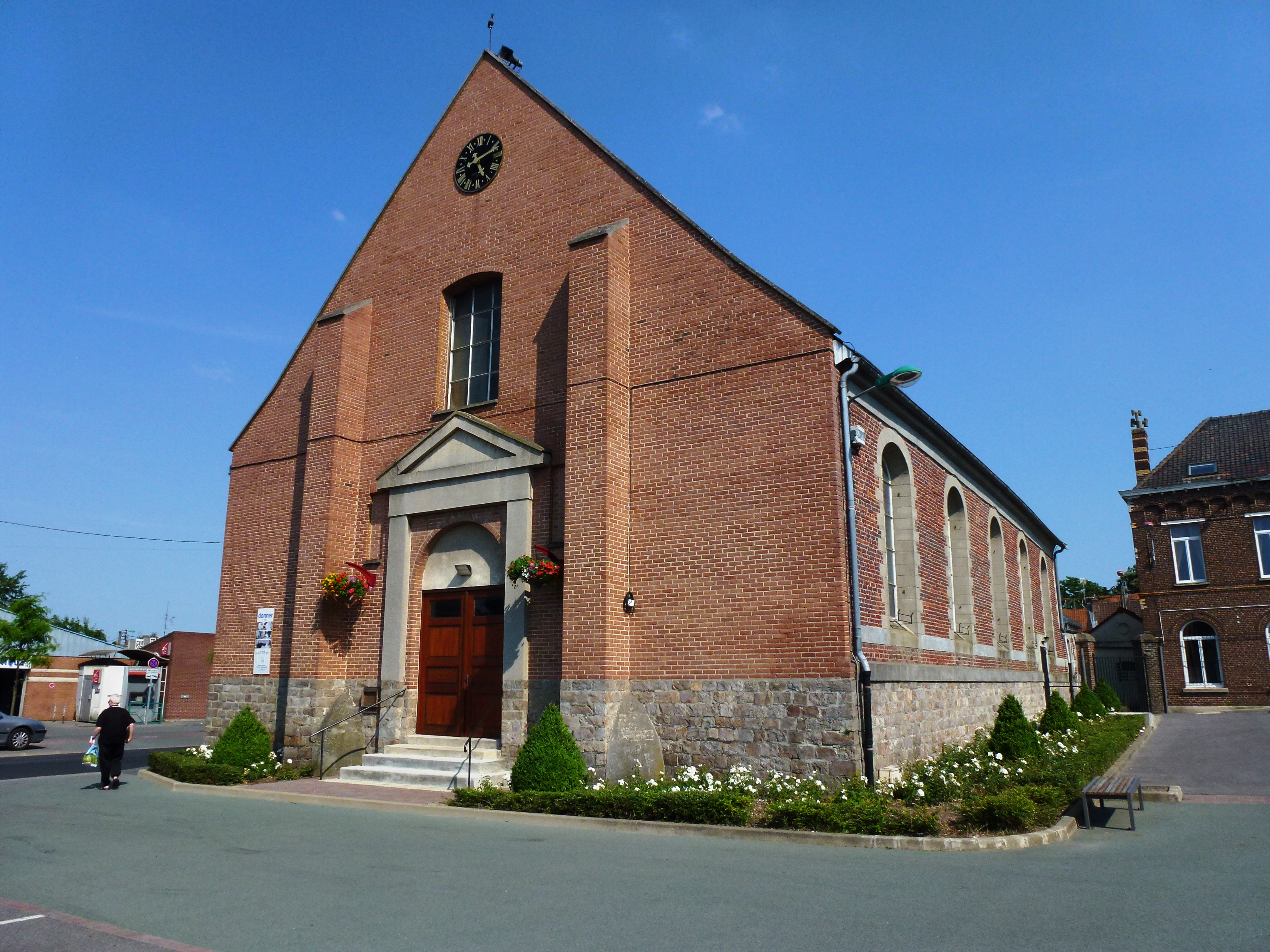 Hérin (Nord, Fr) église